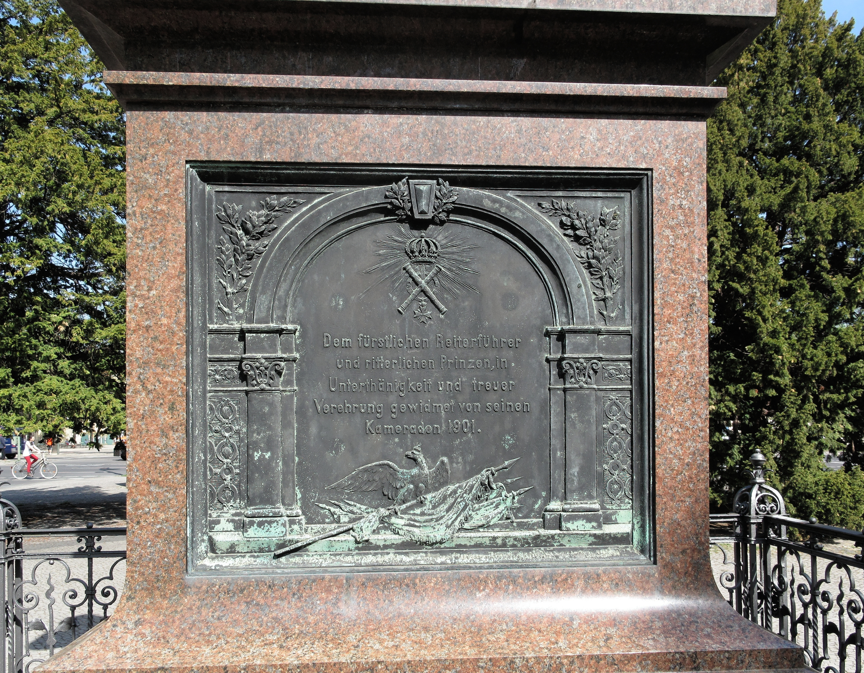 Dedication-relief on the Prinz-Albrecht-von-Preußen-Denkmal, a monument commemorating to Prince Albert of Prussia (1809–1872). The monument shows Prince Albert in 1870 as General of the Cavalry in the Franco-Prussian War. The pedestal-reliefs depict scenes from the Battle of Sedan and the Battle of Loigny-Poupry.The monument was created in 1901 by the german sculptors Eugen Boermel and Conrad Freyberg. It is located at the northern end of the Schloßstraße on the corner to the Spandauer Damm in Berlin-Charlottenburg.